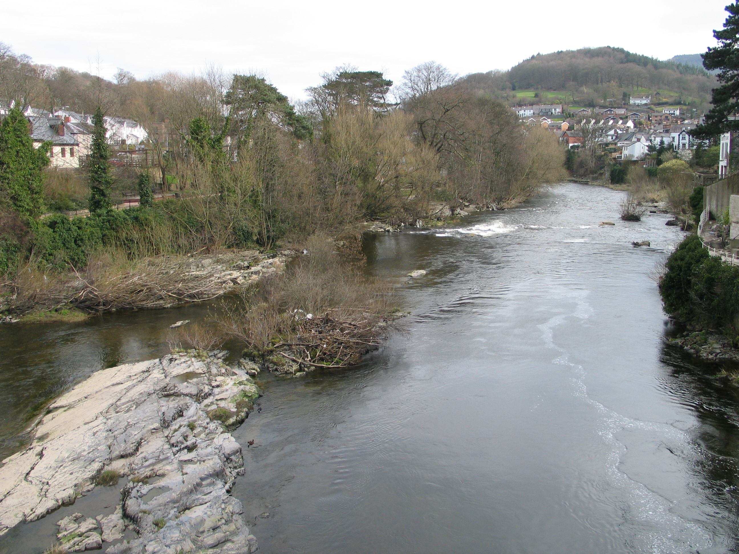 The River Dee flowing downstream from the centre of Llangollen in Wales. Photo taken from road bridge on 17 March 2007.